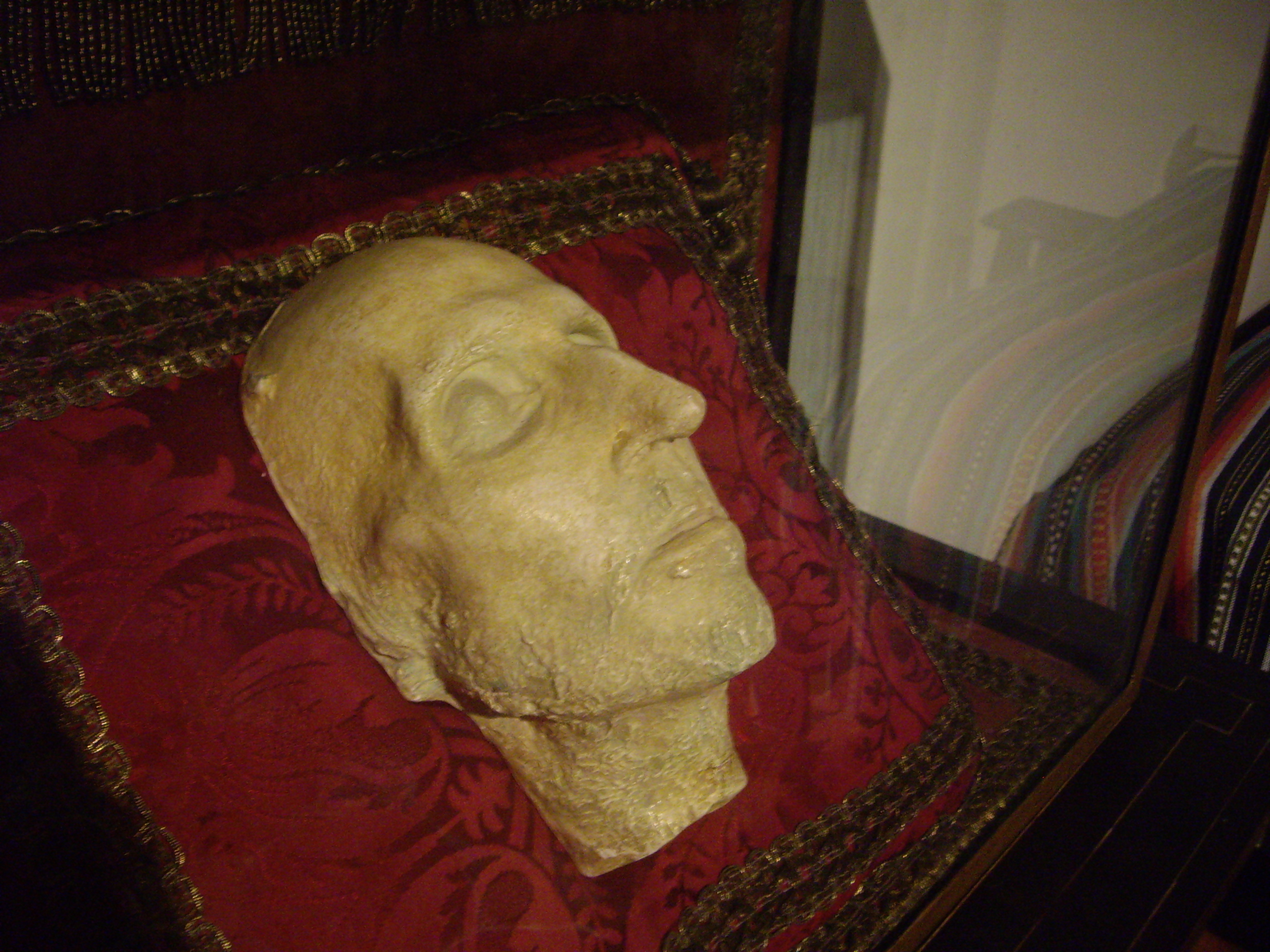 Death mask of Francis Borgia.